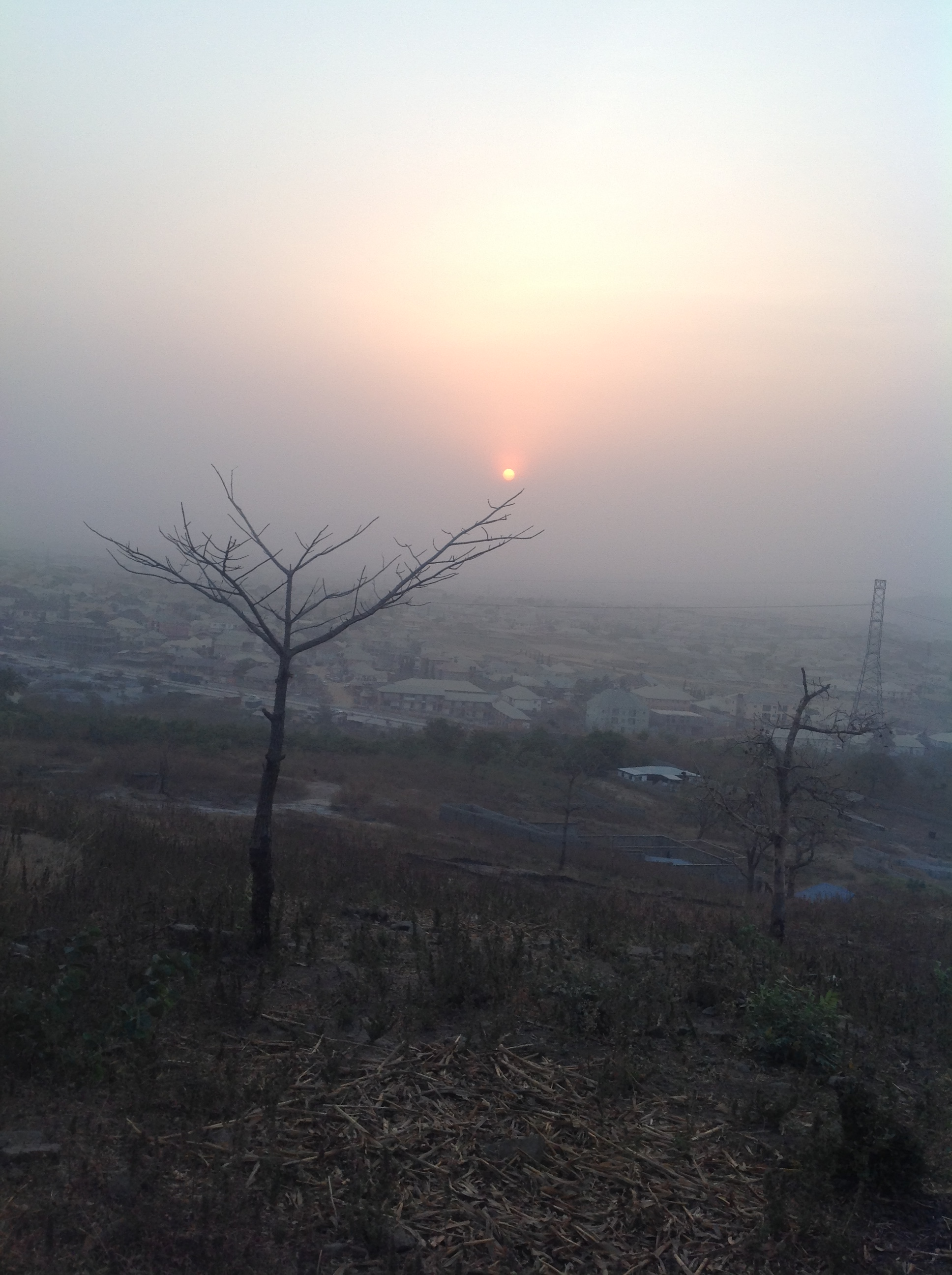 Youths living in the adaptive area of Arab Road, Kubwa, Abuja Nigeria make hiking a perpetual habit especially weekends, taking advantage of the rocky hills surroundings. It is usually a wonderful experience going in groups or family - thus creating special family bonding. This is an image with the theme "Play" from: Nigeria